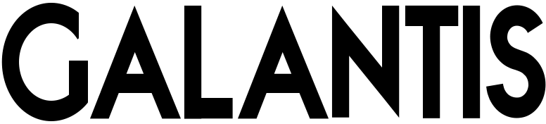 Official logo of DJ-duo Galantis.